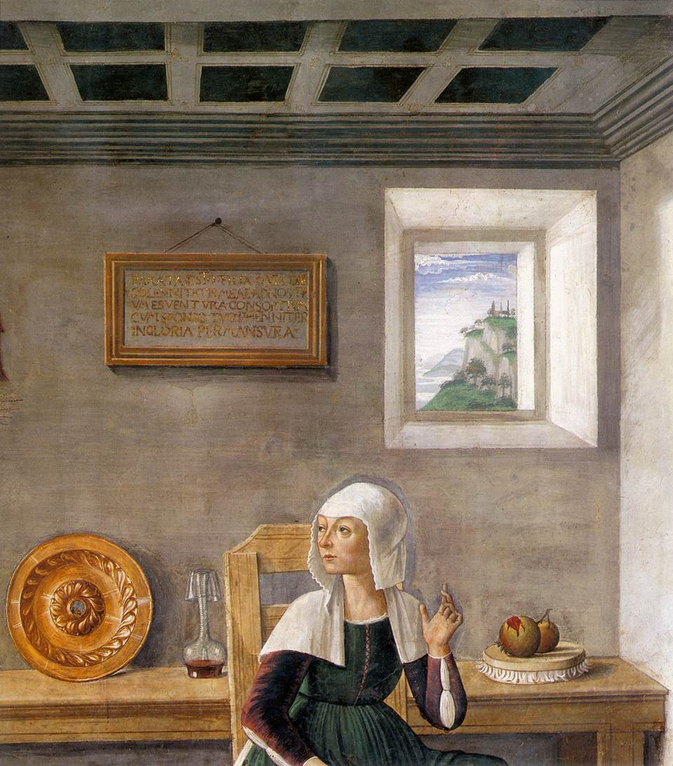 Ghirlandaio, Announcement of Death to St Fina (detail)